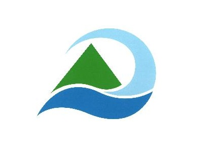 Flag of Daisen Tottori